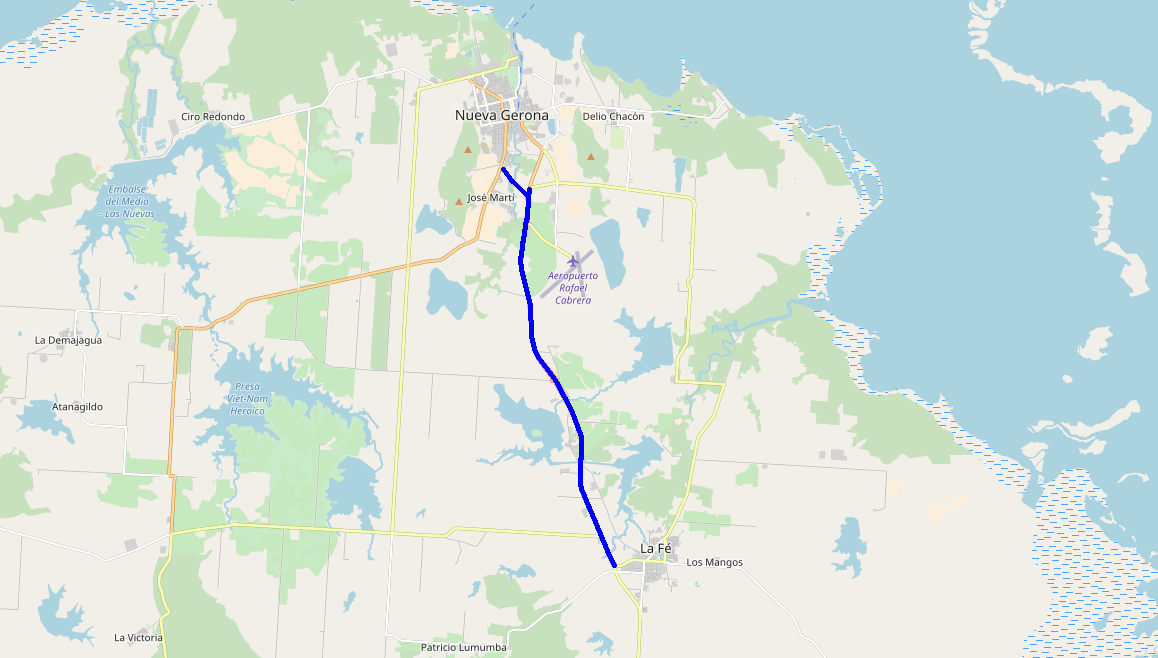 This map may be incomplete, and may contain errors. Don't rely solely on it for navigation.